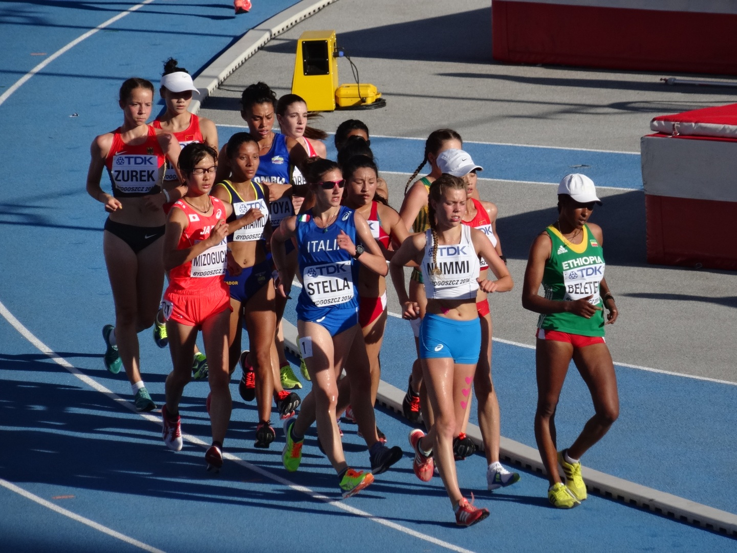 2016 IAAF World U20 Championships in Bydgoszcz, 10000m walk women